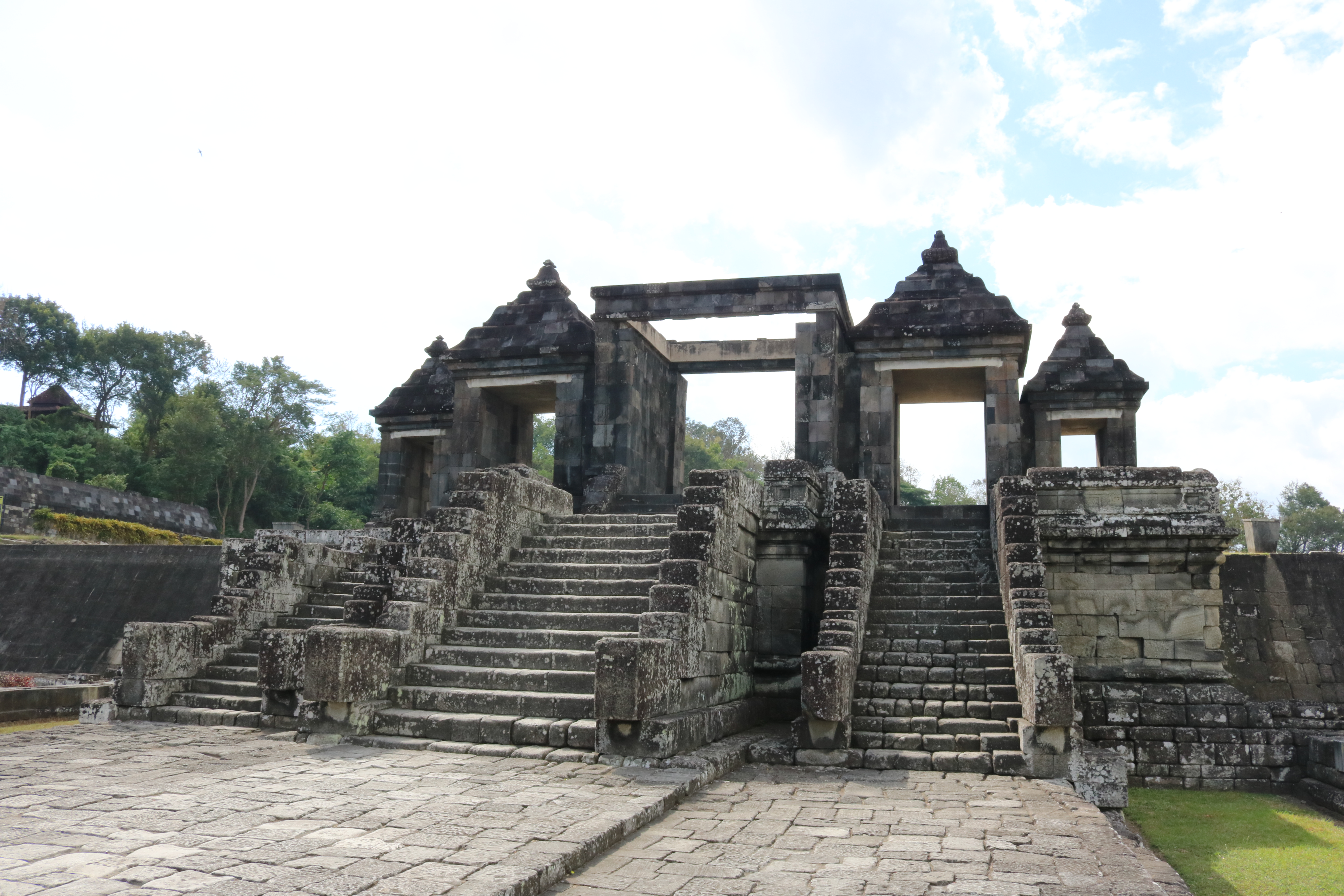 Kraton Ratu Boko (Ratu Boko Temple) in Yogyakarta, Indonesia